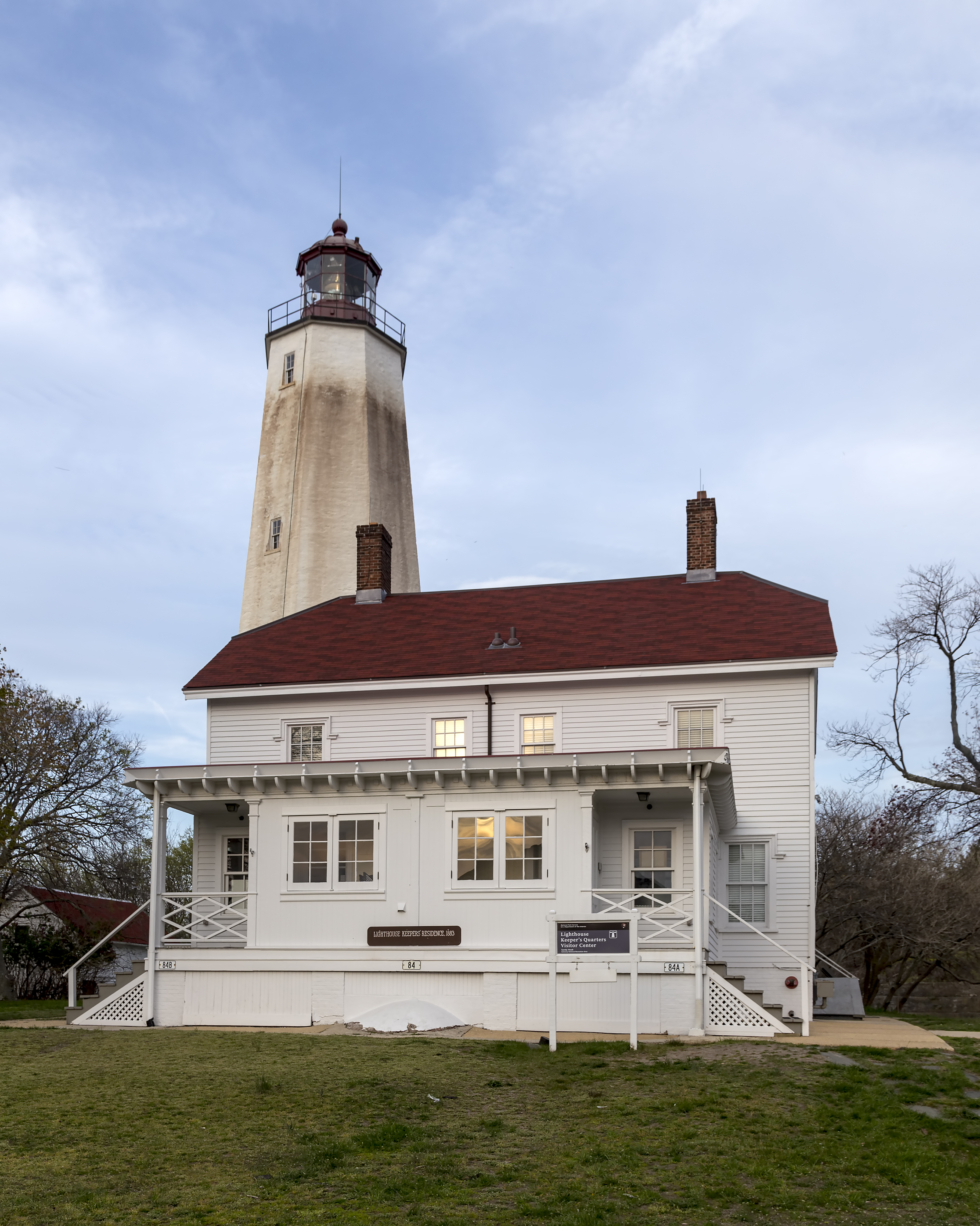 Sandy Hook Lighthouse and the visitor center at Sandy Hook, New Jersey, USA